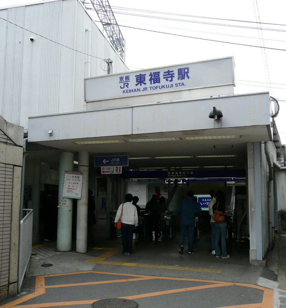 Keihan Electric Railway and West Japan Railway Tofukuji Station